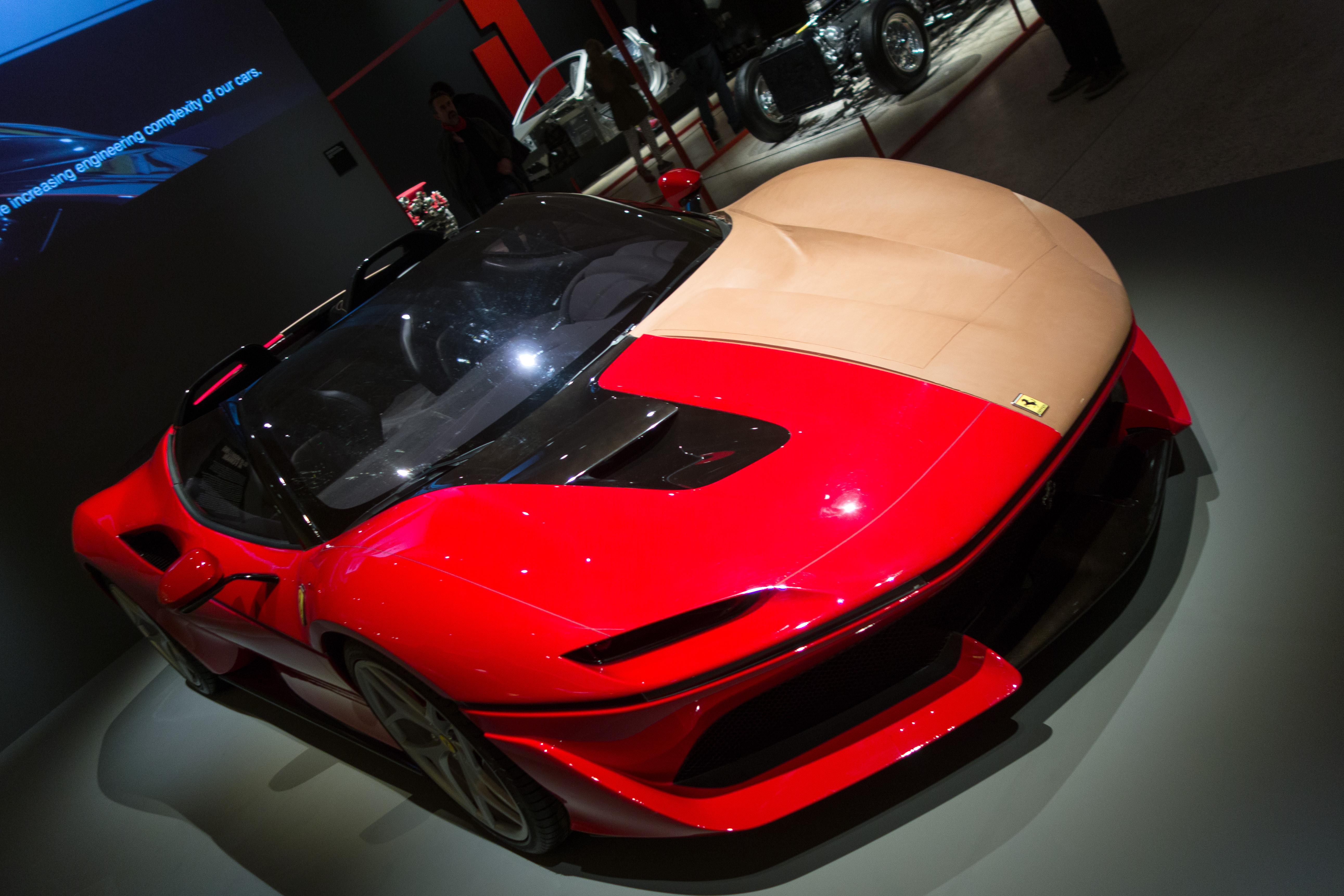 2016 Ferrari J50, half clay. At "Under the skin" Ferrari exhibition at London Design Museum 2018.[1]